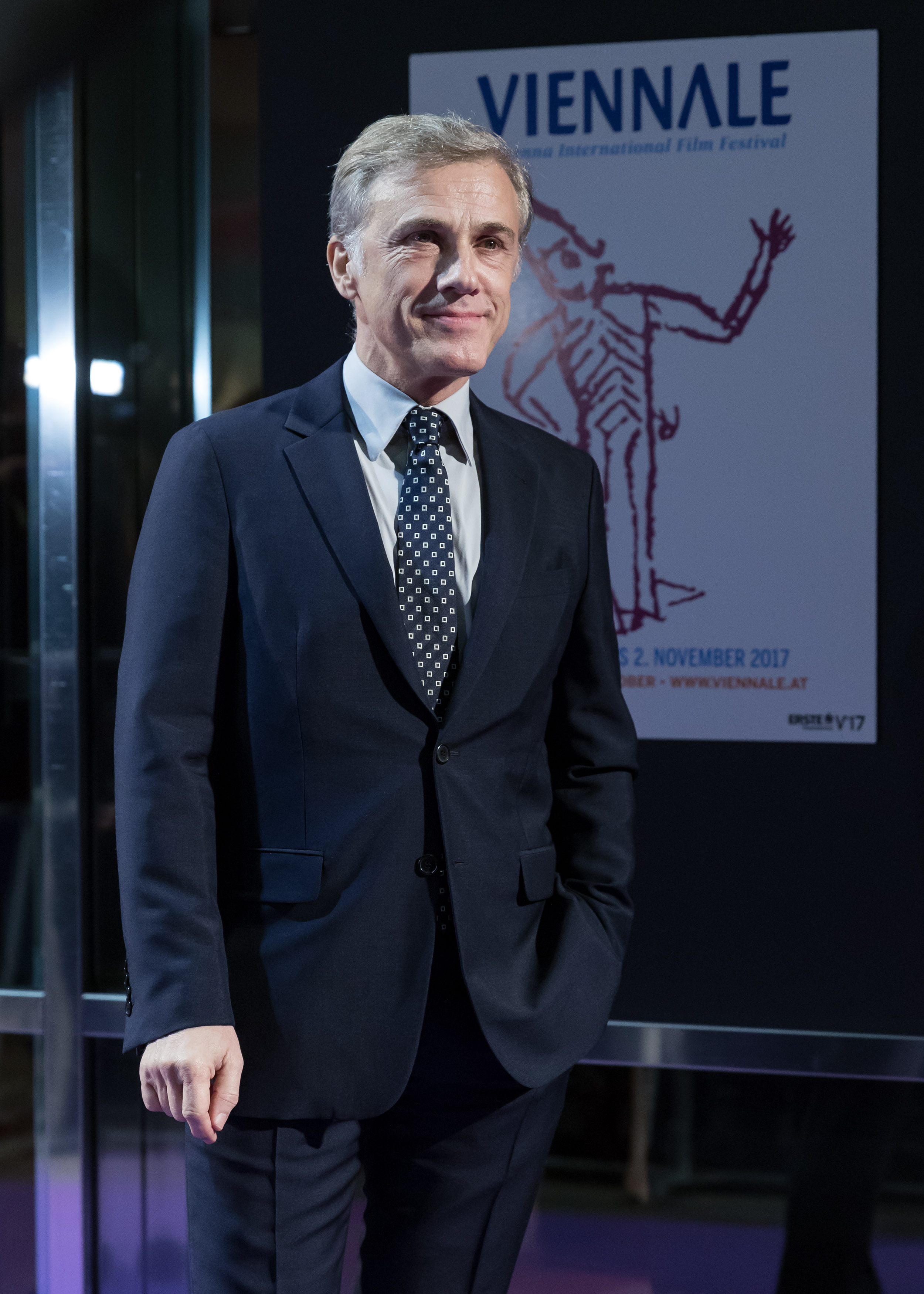 Christoph Waltz at the Vienna International Film Festival 2017 (Gartenbaukino, Vienna, Austria).